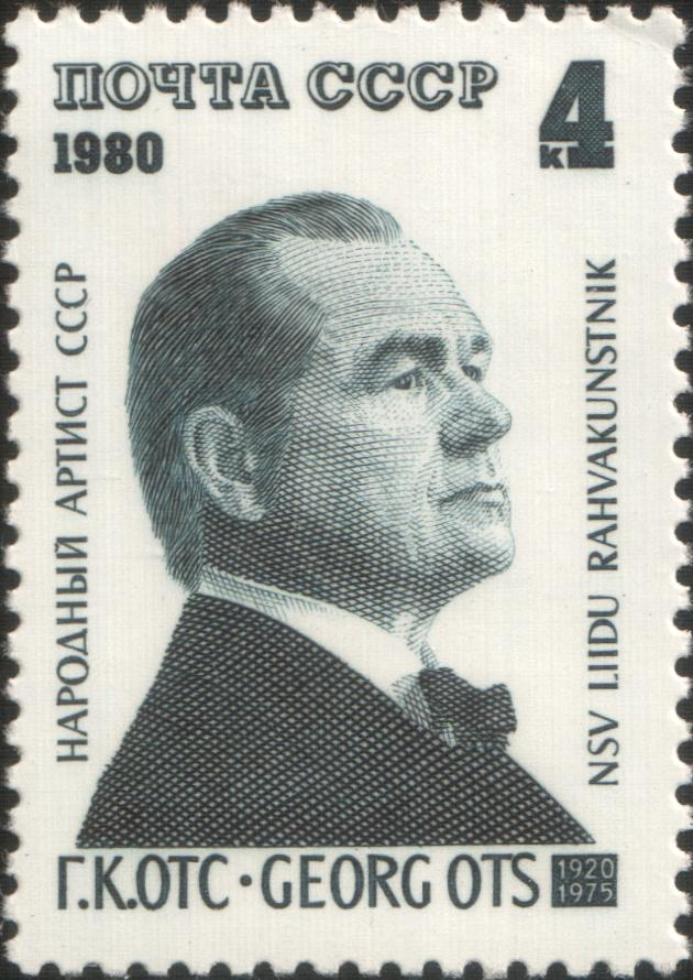 USSR stamp